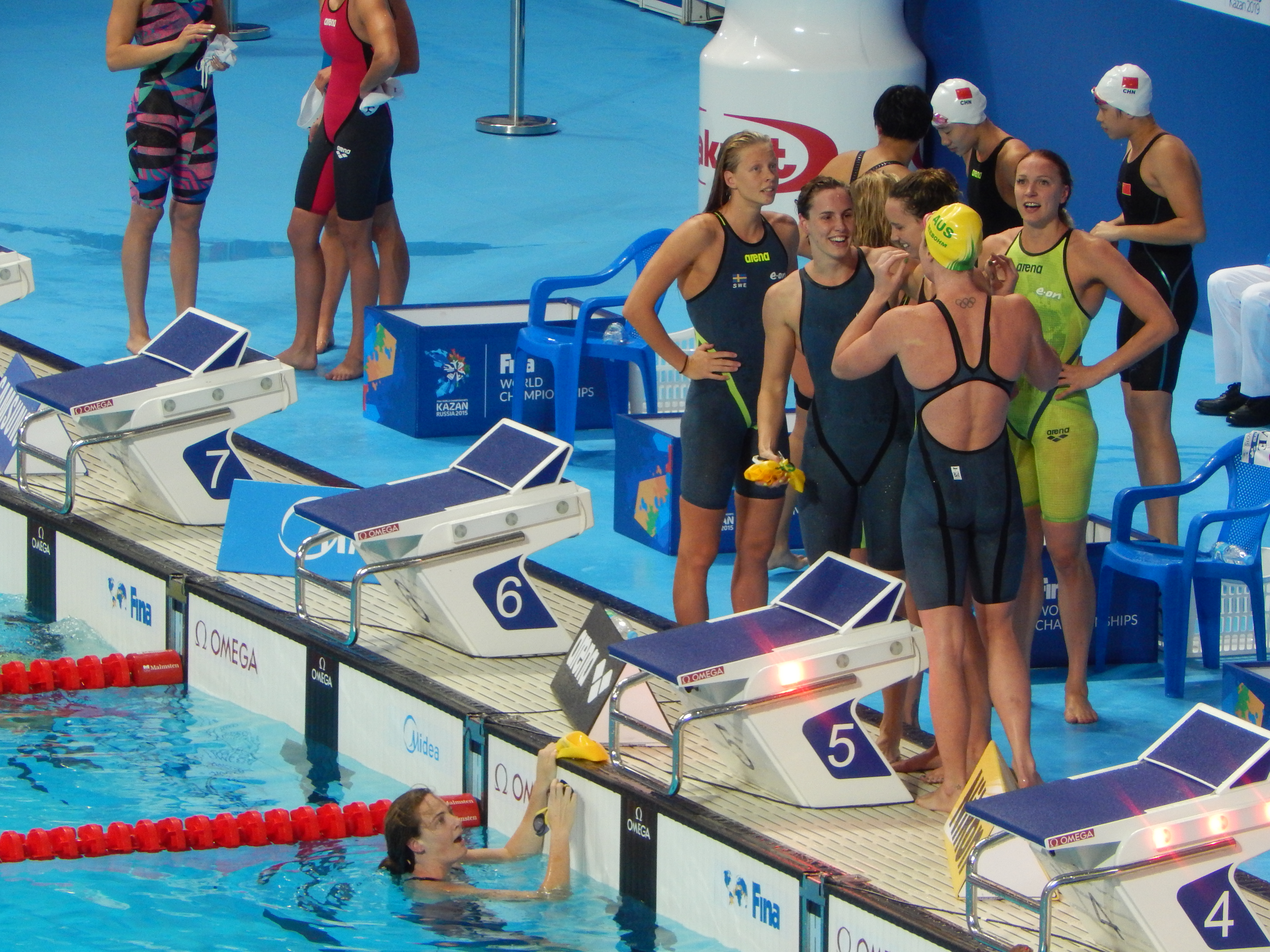 Team Australia wins women's 4×100 metres freestyle relay at the WC in Kazan 2015